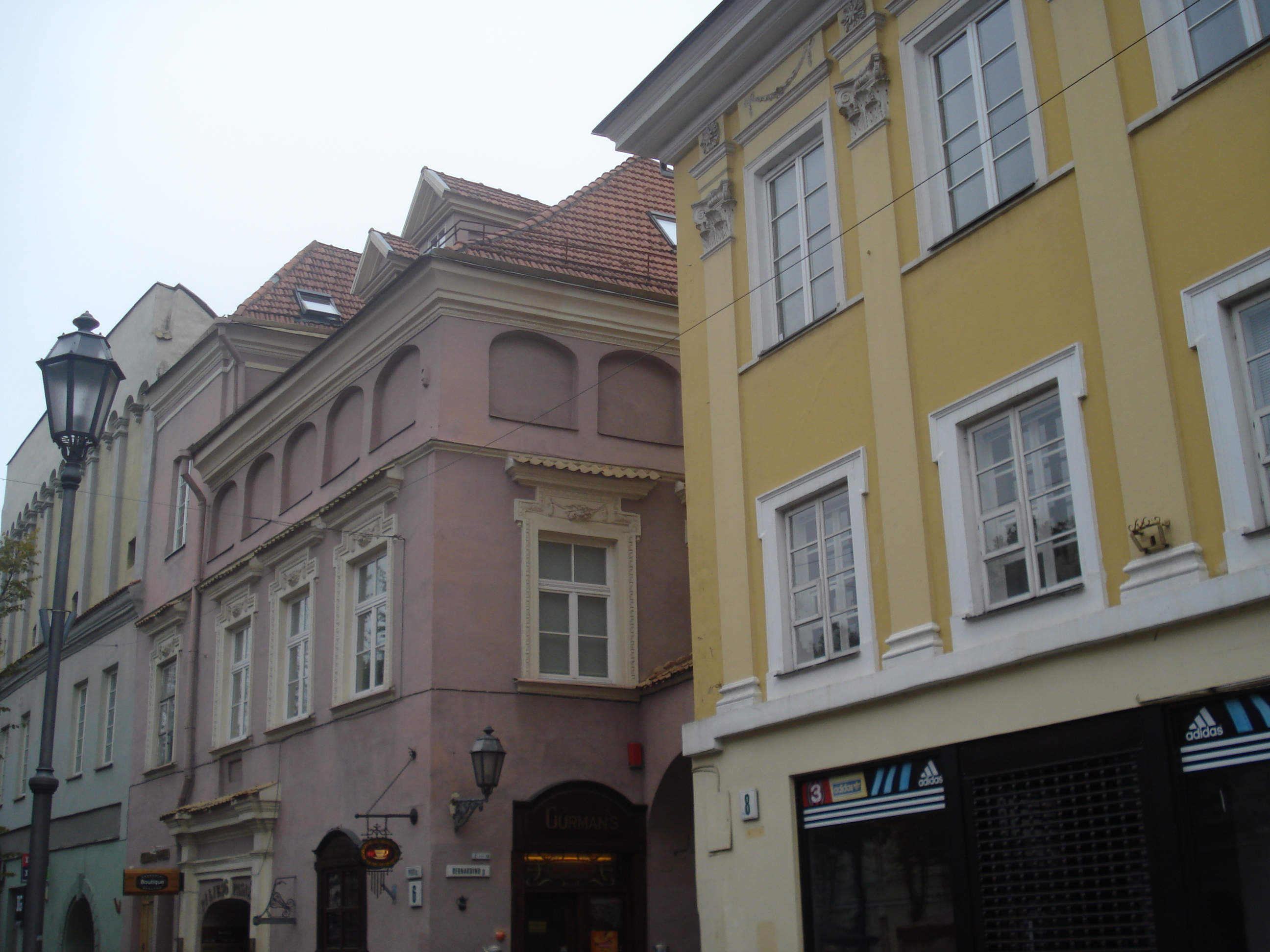 Baroque and neoclassical houses in Pilies street in Vilnius (Pilies g. 4, Pilies g. 6, Pilies g. 8); Bernardinų gatvės kampas